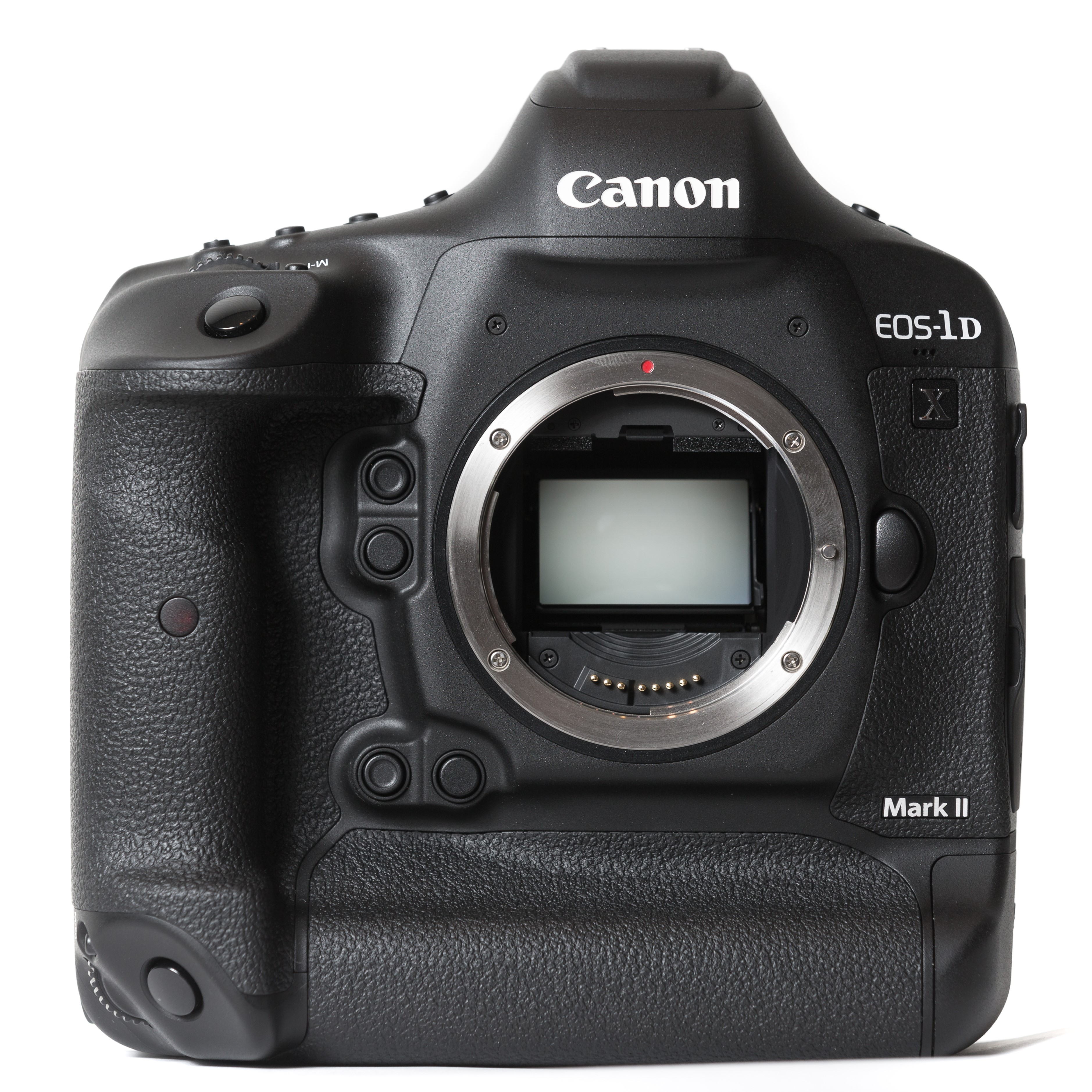 Canon's 2016 flagship professional DSLR.